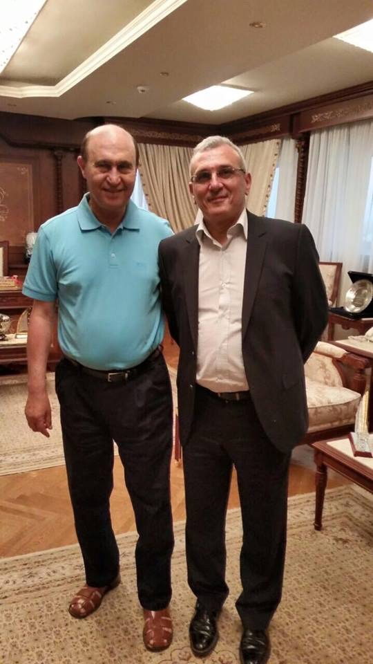 Mohab Mamish chairman of the Suez Canal Authority on the left